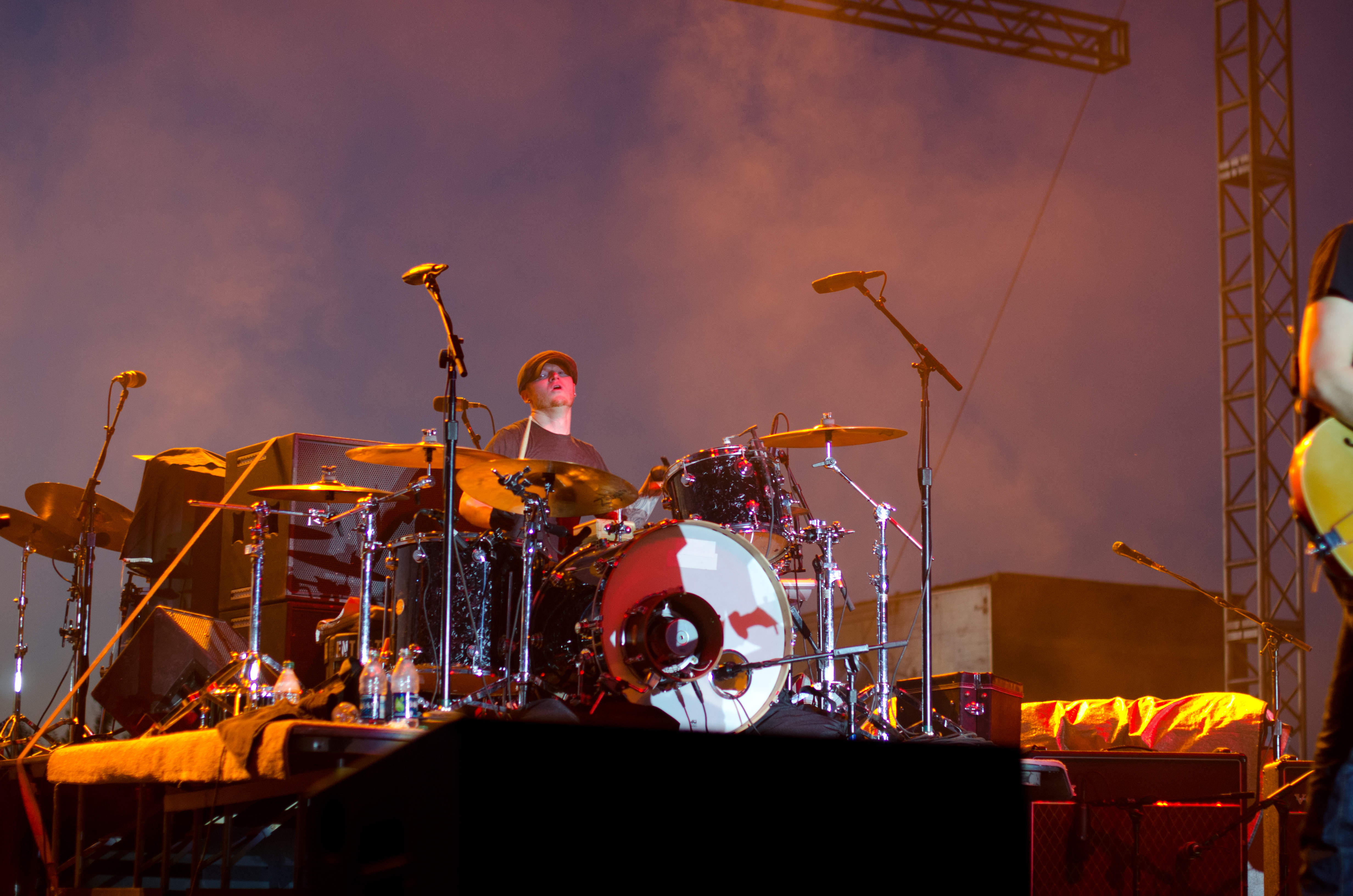 Rick Woolstenhulme, Jr. performing with Lifehouse in Norfolk, Nebraska in 2013